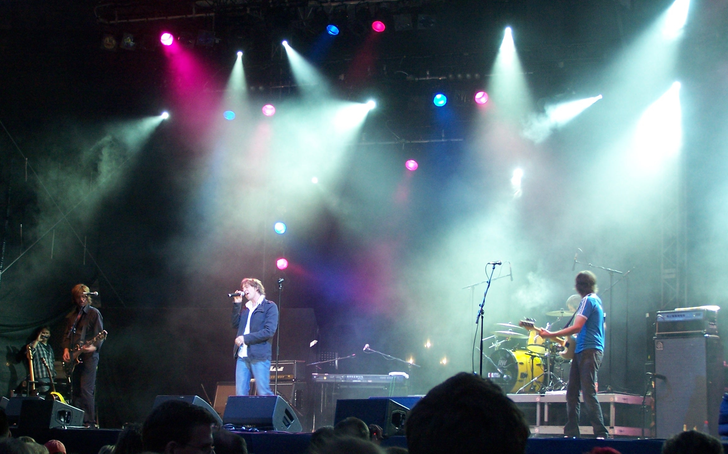 German pop band Fools Garden at an open air concert in Dresden, Germany